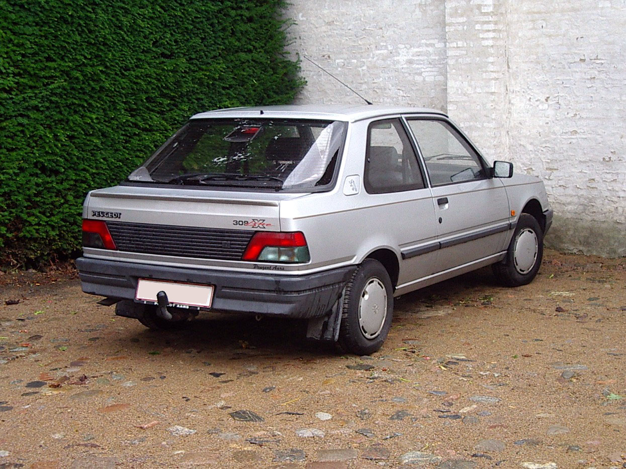 Peugeot 309 3d series 2 Bestline rear view